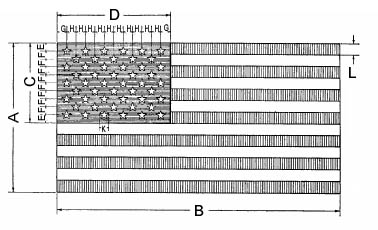 This diagram of the flag of the United States was given in Executive Order 10834, by Dwight D. Eisenhower, on August 21, 1959 (see List of United States federal executive orders). It appears in the United States Code, title 4, chapter 1 The law specifies the lengths in the diagram as follows: Hoist (width) of flag: A = 1.0 Fly (length) of flag: B = 1.9 Hoist (width) of Union: C = 0.5385 (7/13) Fly (length) of Union: D = 0.76 E = F = 0.054 G = H = 0.063 Diameter of star: K = 0.0616 Width of stripe: L = 0.0769 (1/13) Presumably E and F are supposed to be 7/130 = 0.0[538461], and G and H are supposed to be 0.76/12 = 0.06[3]....